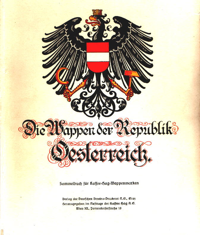 Title page of book